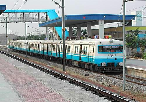 This picture shows the MMTS at the Fathenagar station, which lies almost in Sanathnagar area.